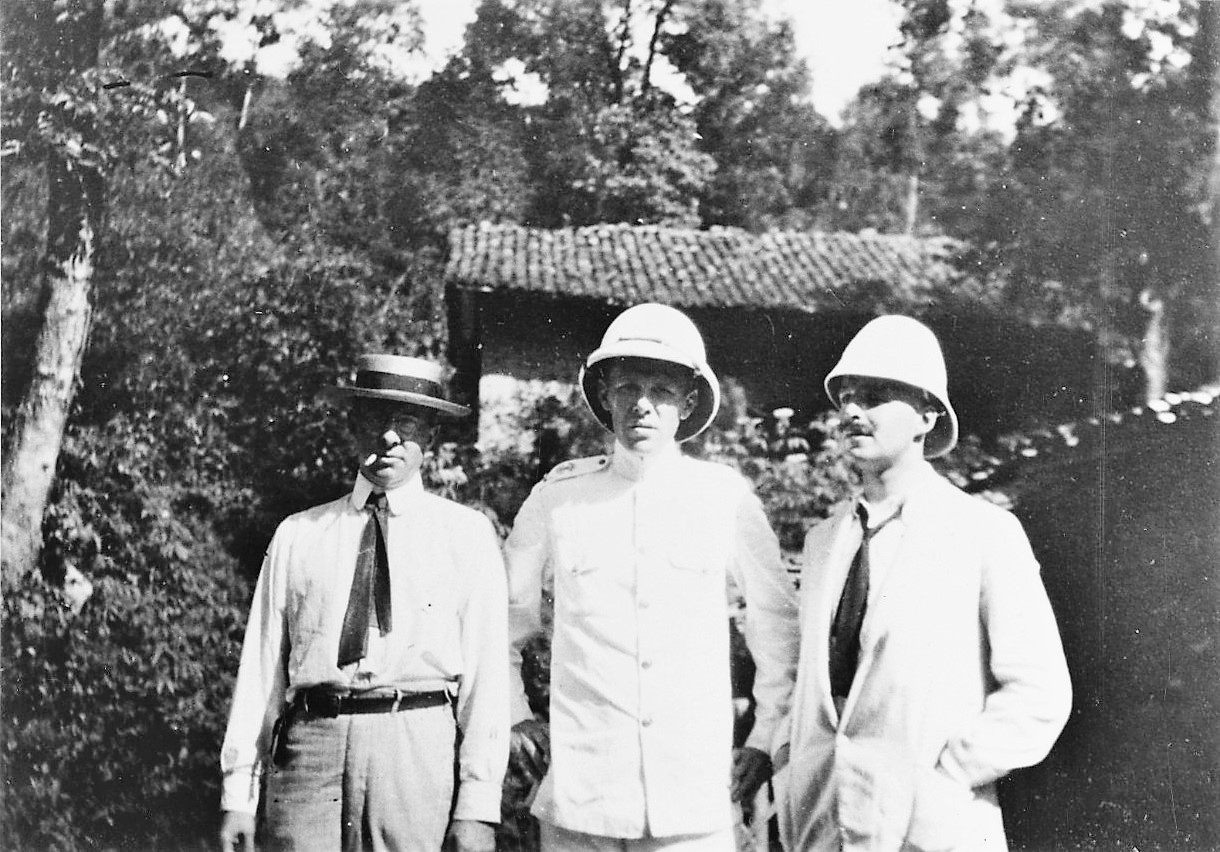 Paymaster William J. Littell, USN (L), Lt. JG Calvin P. Page, USN (center), midshipman Hugo W. Koehler, USN at Kuling, China [now known as Guling, Jiangxi].